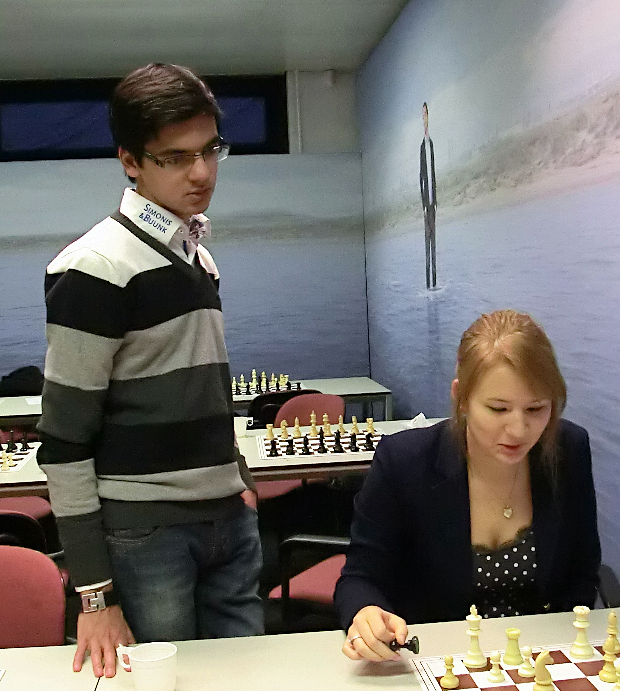 Tata Steel chess tournament 2013, Anish Giri and Lisa Schut analysing